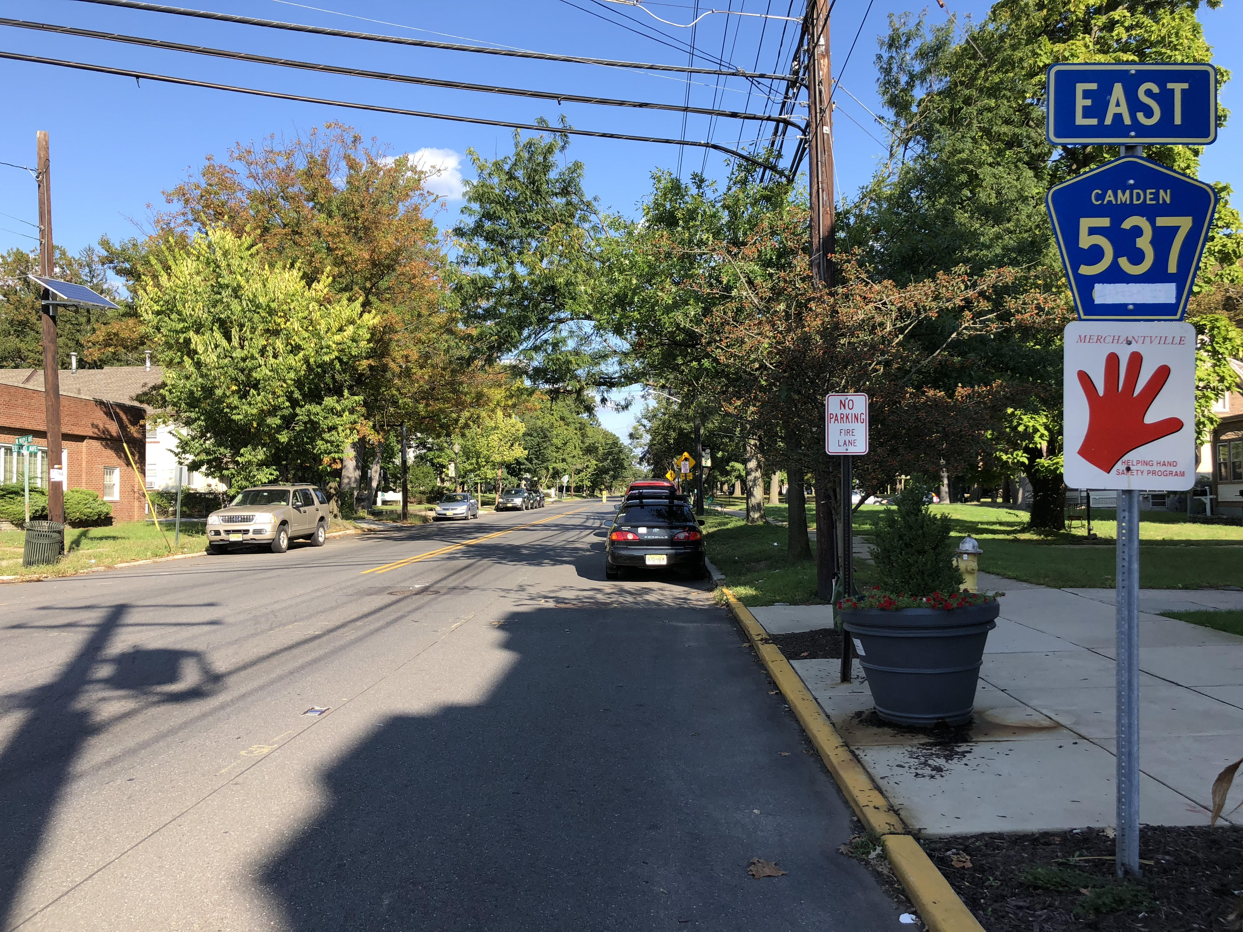 View east along Camden County Route 537 (Maple Avenue) at Euclid Avenue in Merchantville, Camden County, New Jersey